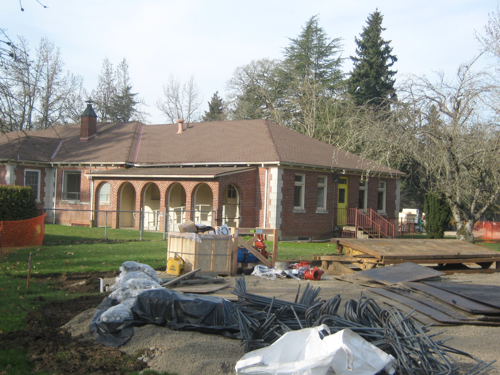 Howard Hall in Salem, Oregon, United States, part of the former Oregon School for the Blind and designed by architect John V. Bennes. It was demolished in February 2015.